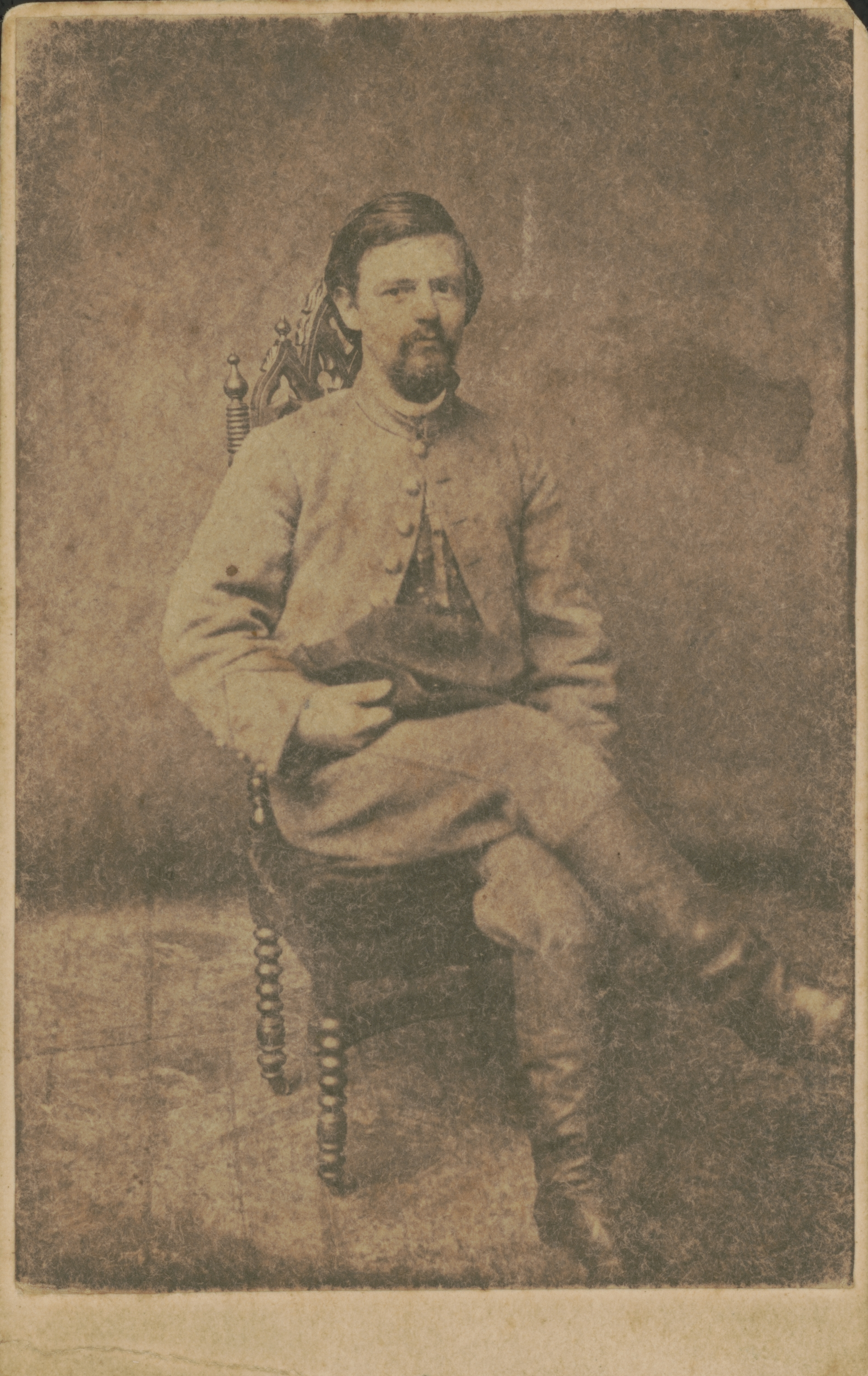 Private Joseph Lorenzo Bilisoly of Co. K, 9th Virginia Infantry Regiment in uniform, Library of Congress. Note: Notation on verso: "For my beloved parents on their birthdays. Taken Dec. 4th 1864. J. L. Bilisoly."